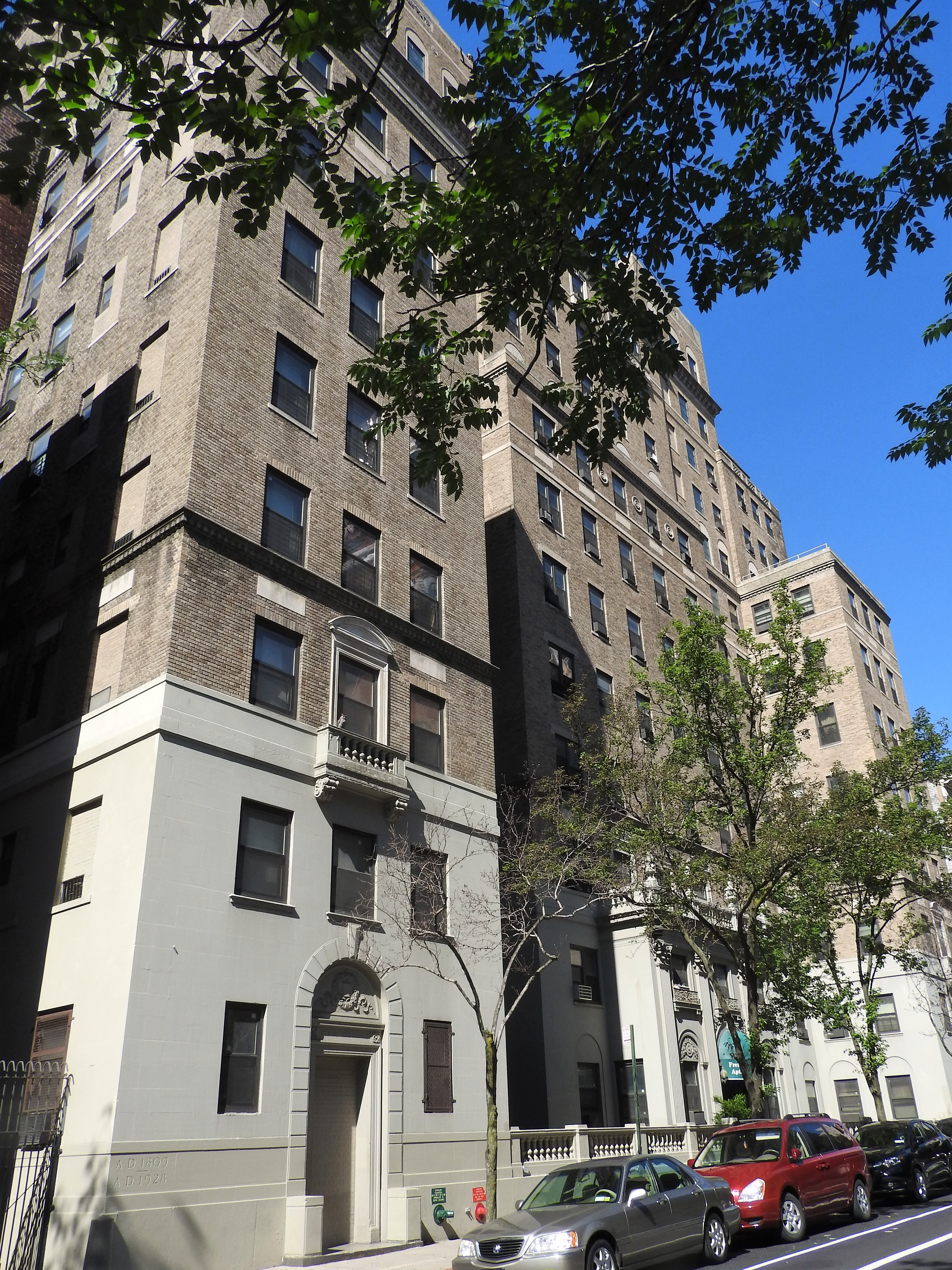 Looking west across 30th Street